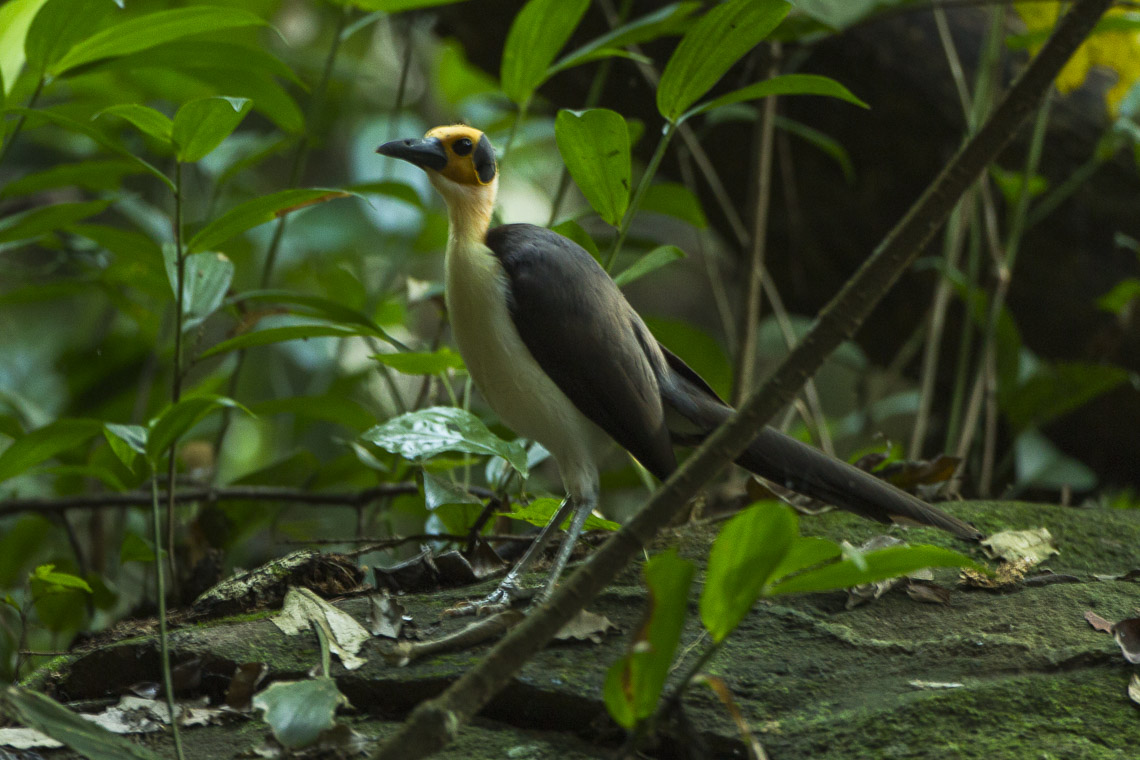 White-necked Rockfowl - Ghana_S4E2922